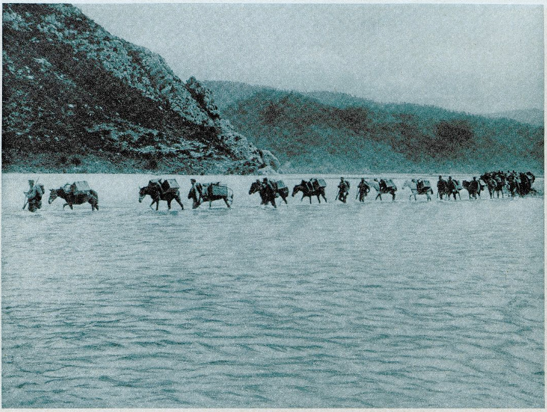 Austrlian-Hungarian soldats crossing the river Mat in Northern Albania